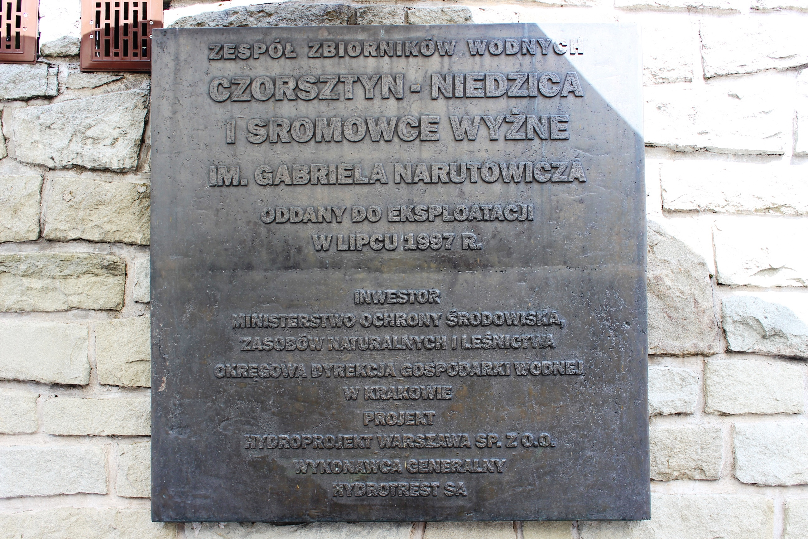 Niedzica Dam